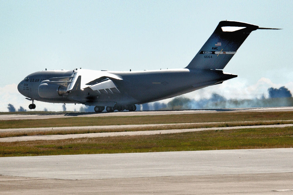 Travis Air Force Base, California C-17 Ceremony Air Force and local community members watch, as the newest C-17 to be stationed at Travis Air Force Base, Calif. touches down. Assigned to 60th Air Mobility Wing and 349th Air Mobility Wing USAF Photo by Nan Wylie